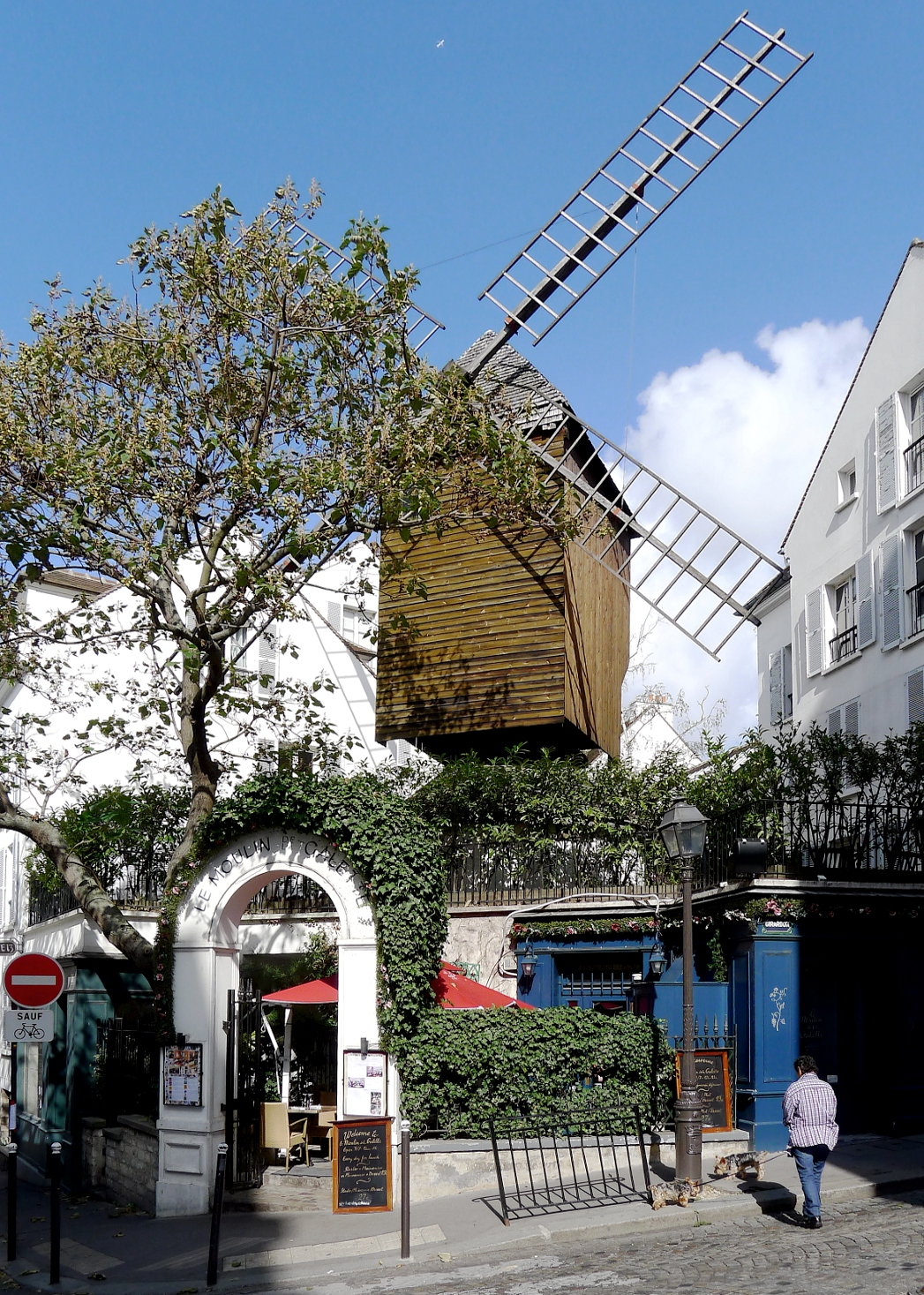 Moulin de la Galette - Paris